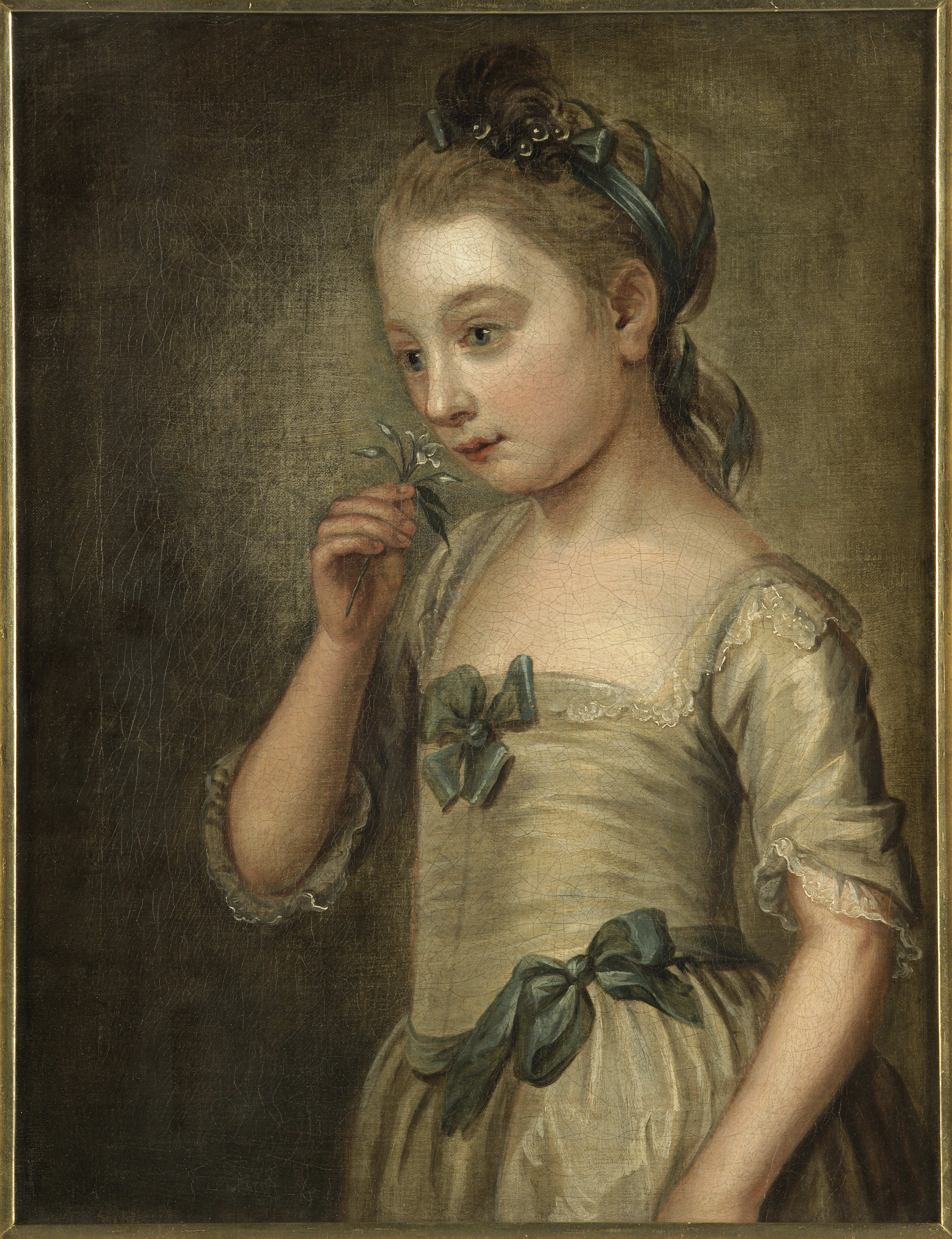 The sense of smell circa 1750; England